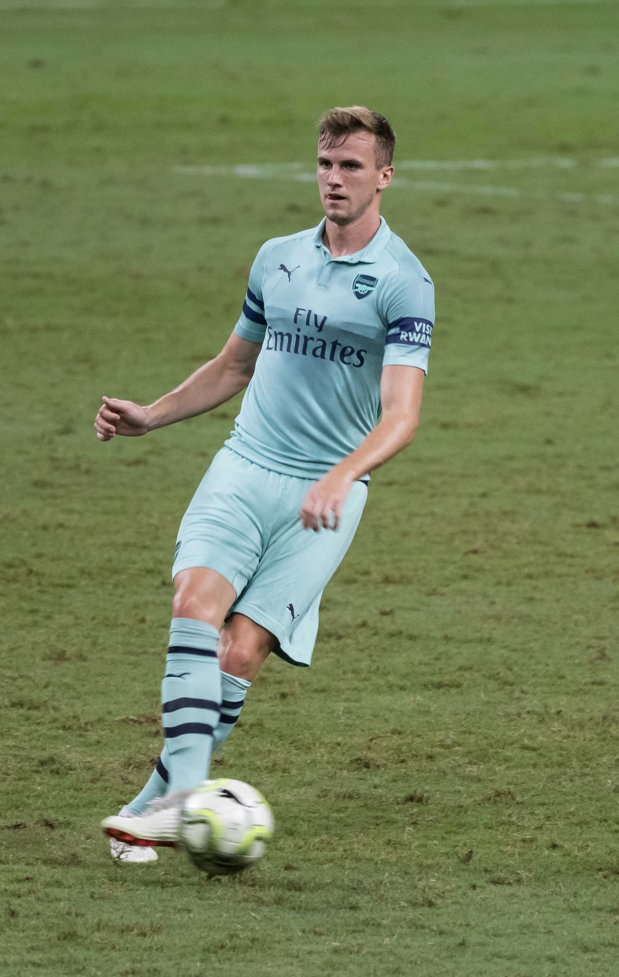 Rob Holding Arsenal v PSG International Champions Cup Singapore National Stadium 2018